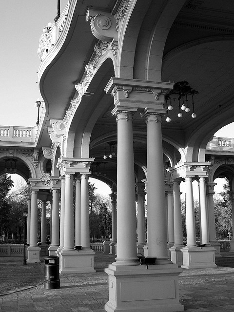 Museo de Arte Tigre - Tigre Art Museum has a collection comprising Argentina art that covers the nineteenth and twentieth centuries. Camera: Kodak CX7530 Zoom License on Flickr (2011-01-26): CC-BY-2.0 Flickr tags: Tigre, Casino, Antiguo, Buenos Aires, Argentina, Argentine